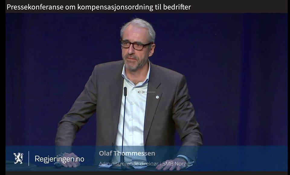 Olaf Thommessen under presentasjonen av kompensasjonsordningen